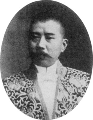 Mutō Torata, 6th director of the Second Higher School.